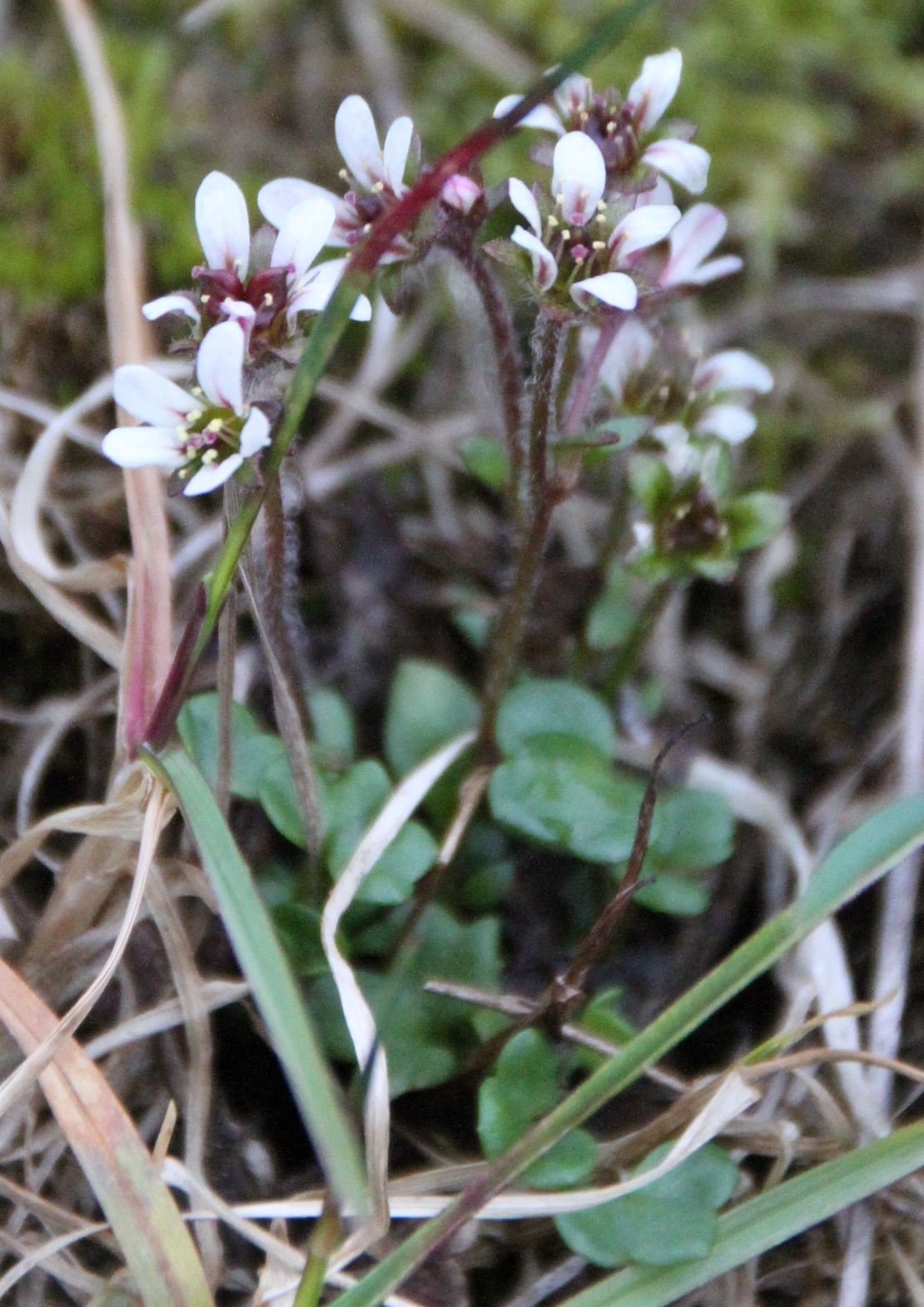 Saxifrage flowers observed at island of Spitsbergen, Svalbard (Norway). August,, 2012.